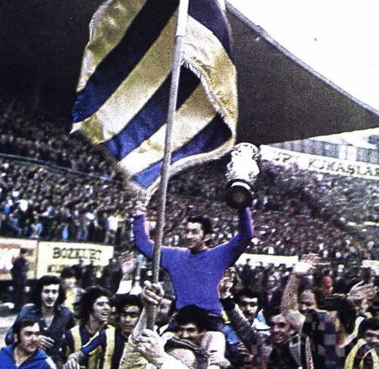 Romanian goalkeeper Ilie Datcu lifting the Turkish Cup with Fenerbahçe.